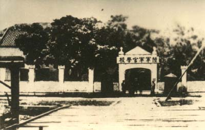 entrance gate of the Whampoa Military Academy